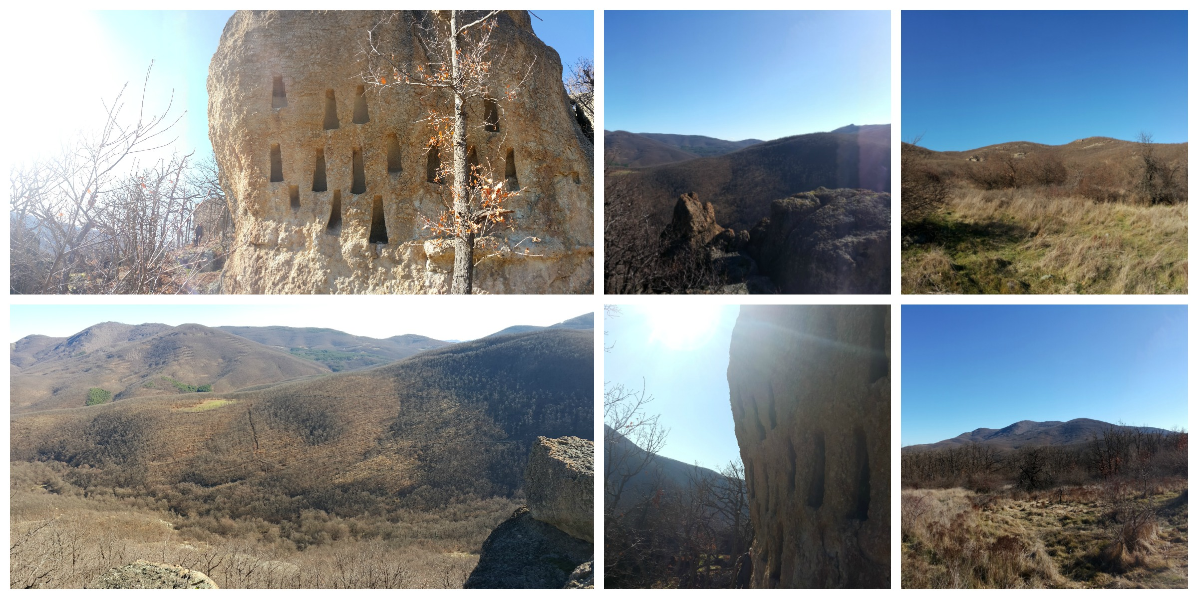 Karaulkata Peak Northeast Rhodopes Bukovo Bulgaria